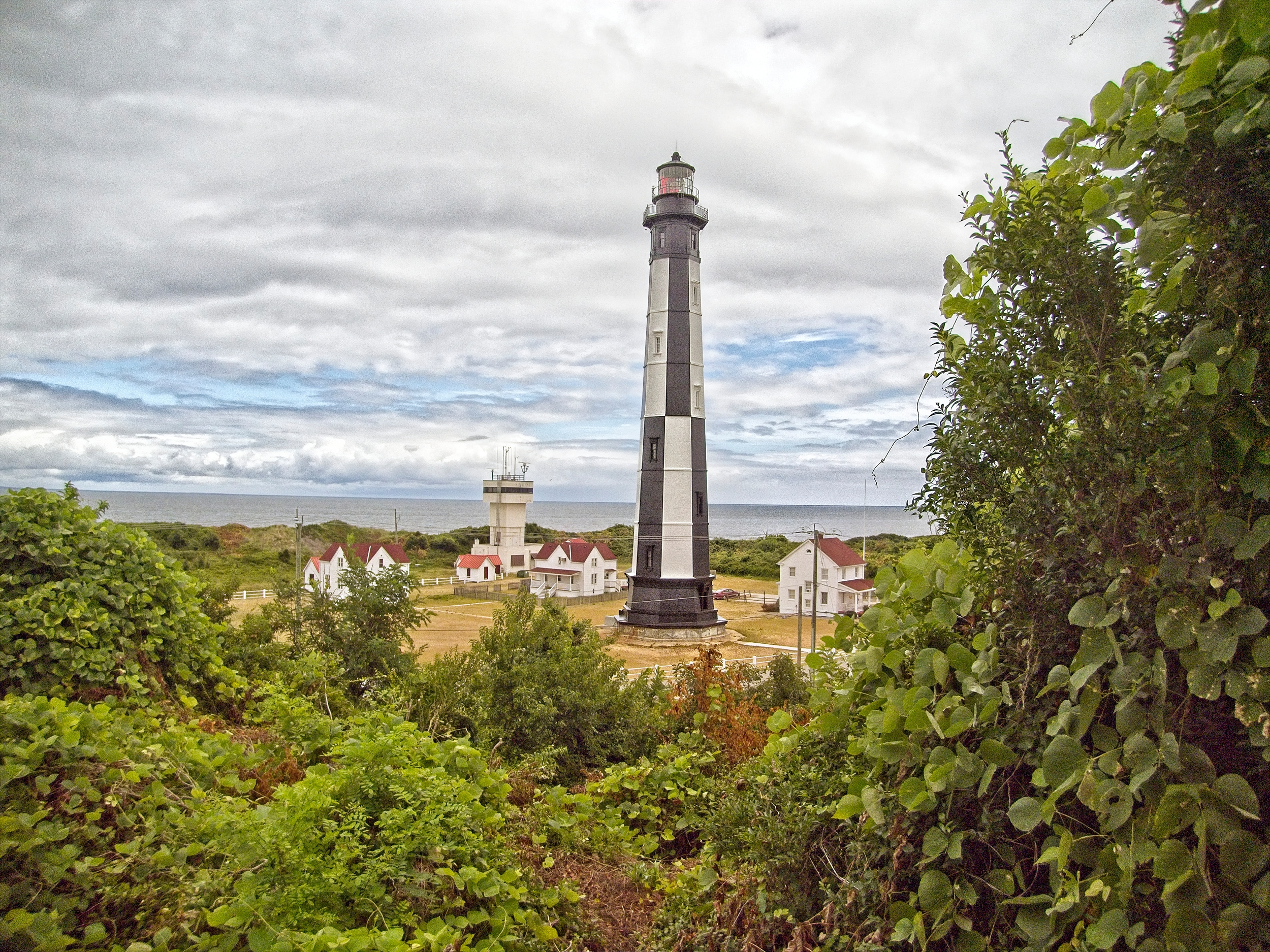 HB4116